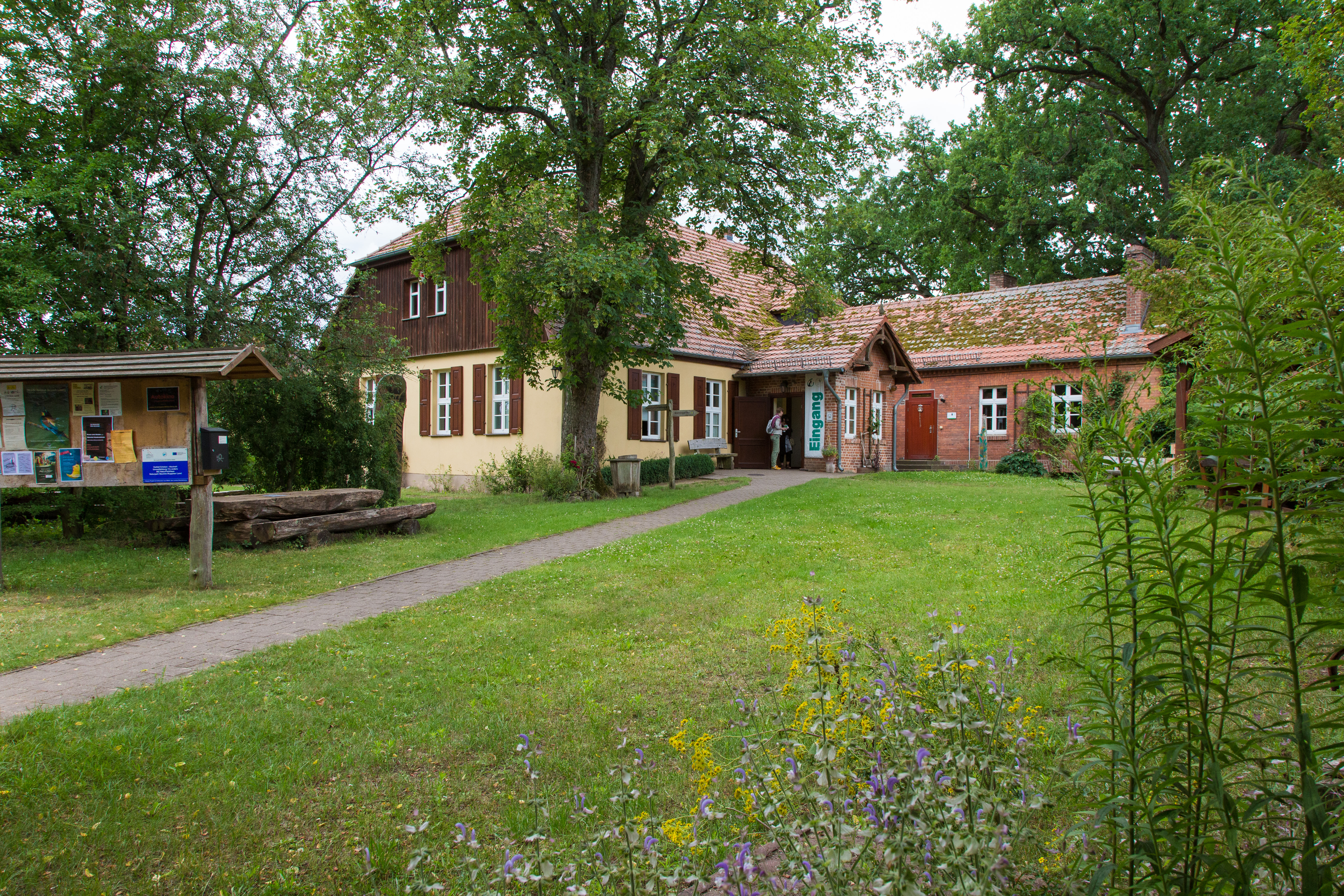 The NaturParkHaus Stechlin in Menz is the visitor centre of the Stechlin-Ruppiner Land Nature Park